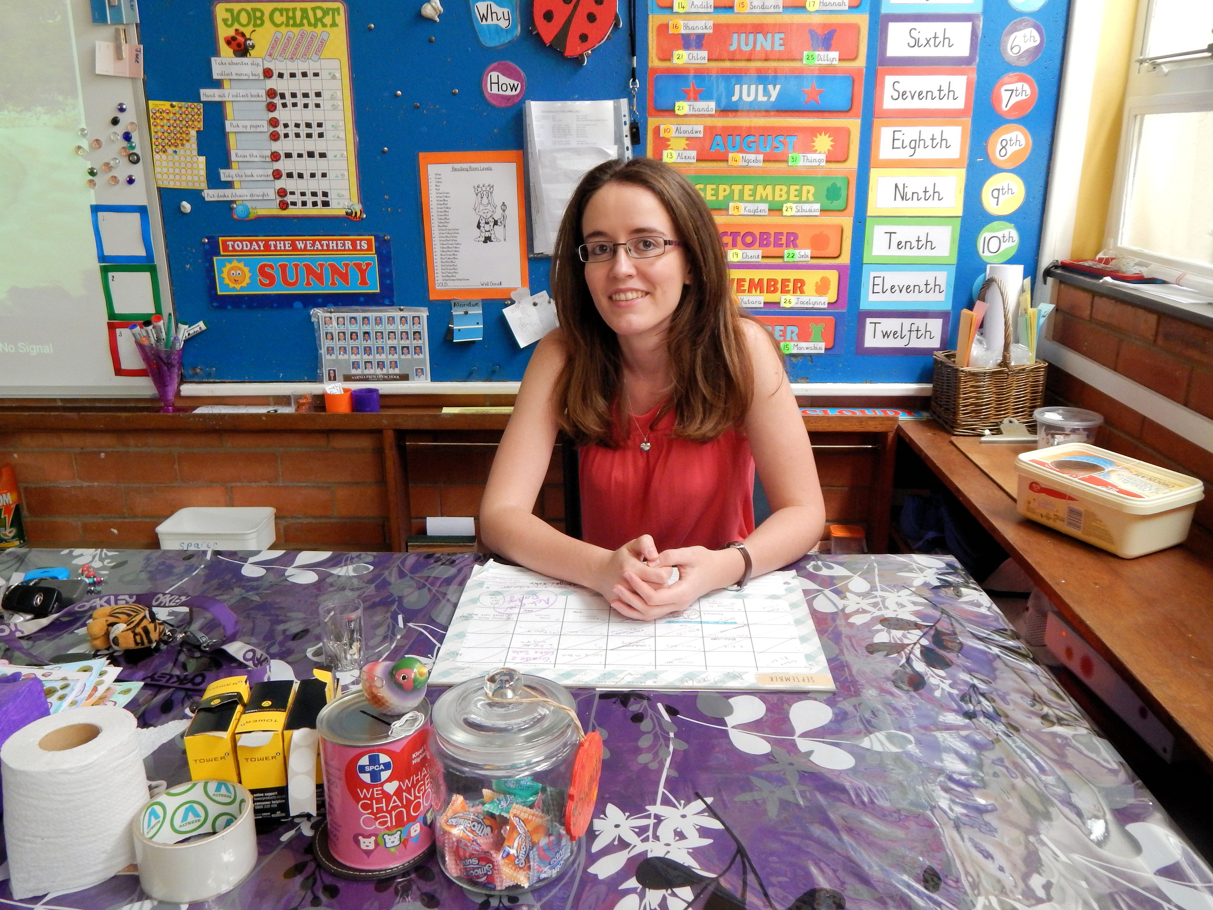 A second grade teacher at a school in Sarnia, KZN, South Africa This is an image of "African people at work" from South Africa